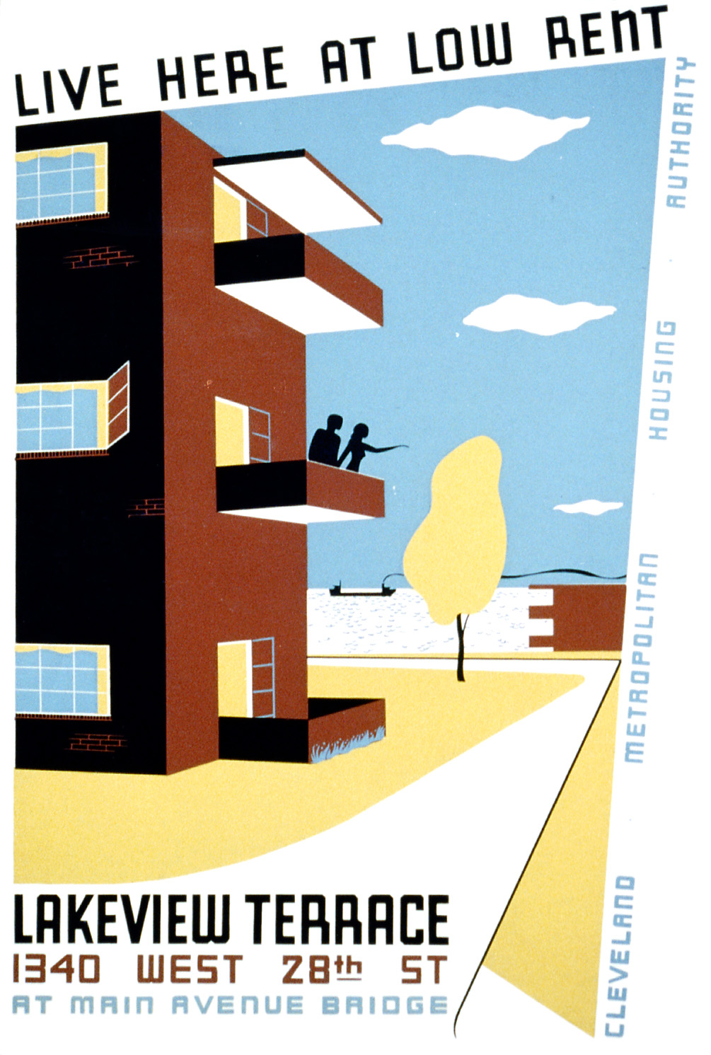 Live here at low rent - Lakeview Terrace, 1340 West 28th St. at Main Avenue bridge. Poster for Cleveland Metropolitan Housing Authority promoting low income housing.